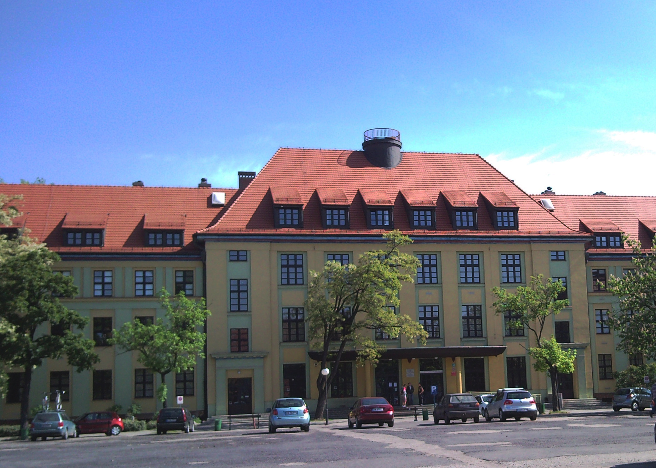 Institute of International Studies, University of Wrocław